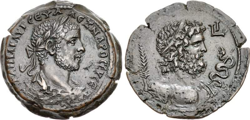 Alexandria Drachm, Severus Alexander. AD 222-235. Æ (35mm, 23.63 g, 12h). A KAI(ΣΑΡ) MAP(ΚΟΣ) AYP(ΗΛΙΟΣ) ΣЄY(ΑΣΤΟΣ) A ΛЄΞNΔPOC ЄYΣЄ(ΒΗΣ), laureate, draped, and cuirassed bust of Severus Alexander right / Diademed heroic bust of Asclepius right, with slight drapery; palm frond to left; to right, L I (date) above serpent-entwined staff.